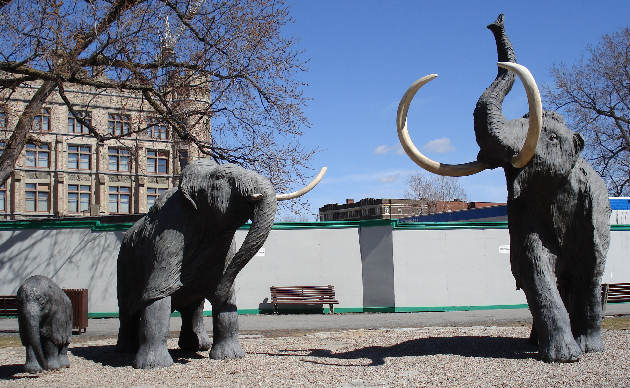 Mammoth statues outside the Canadian Museum of Nature, Ottawa, Canada.